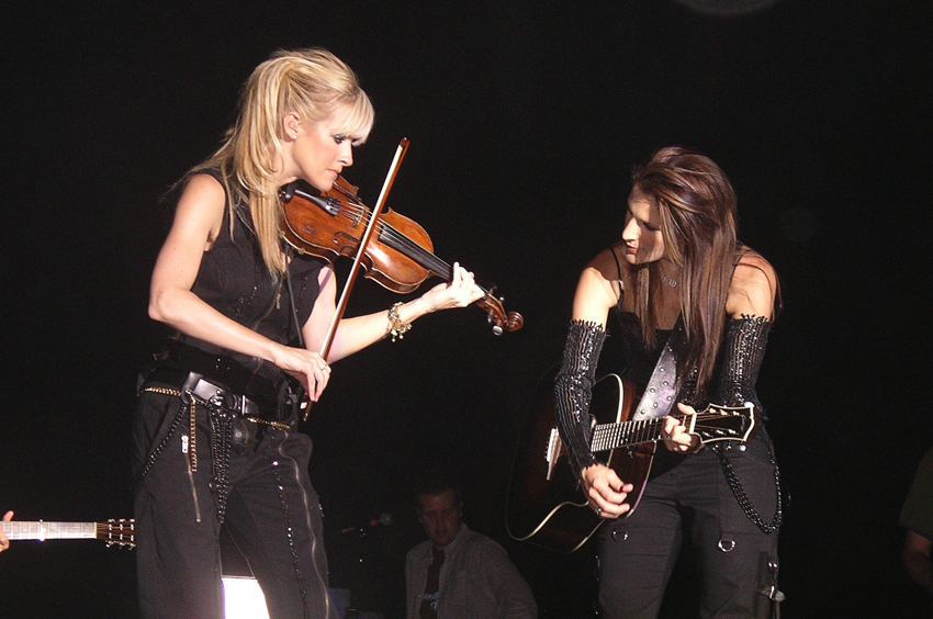 Dixie Chicks Glasgow 2003